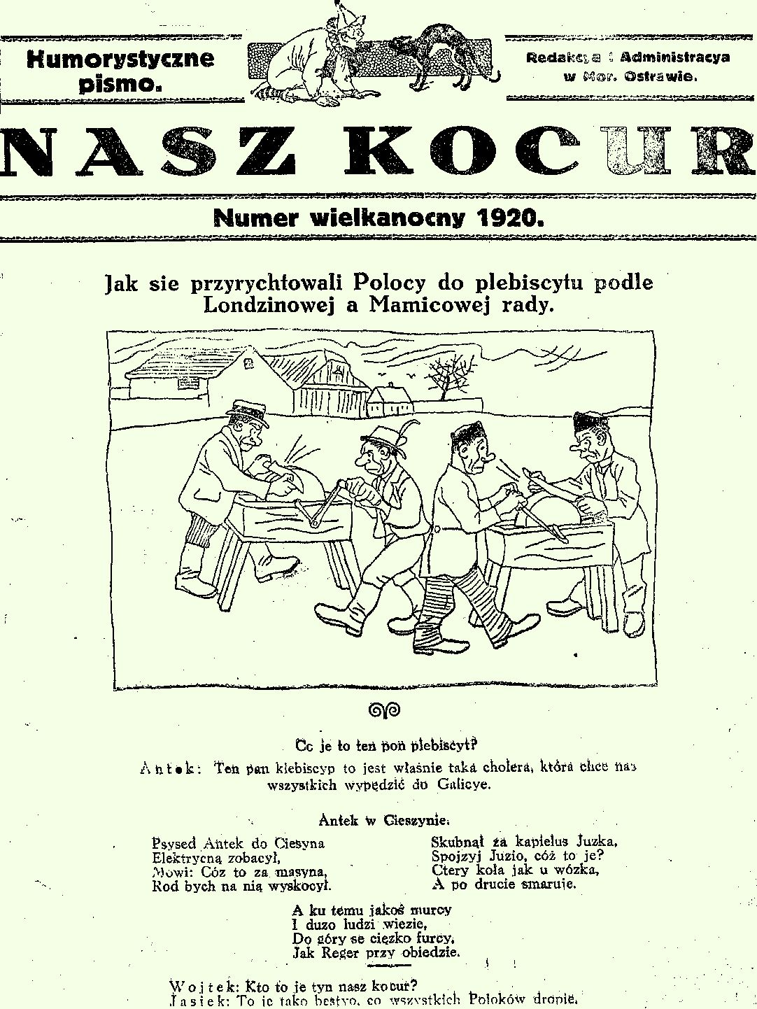 Title page of humoristic magazine Nasz Kocur (Our Tomcat) published by Teschen Silesian politician Josef Kozdon in 1920. The magazine contained anti-Polish propaganda.